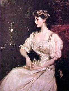 Princess Patricia of Connaught (1886-1974)